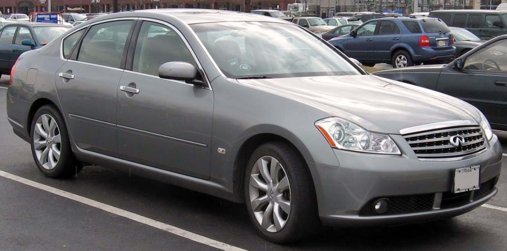 2006-2007 Infiniti M35 photographed in USA.